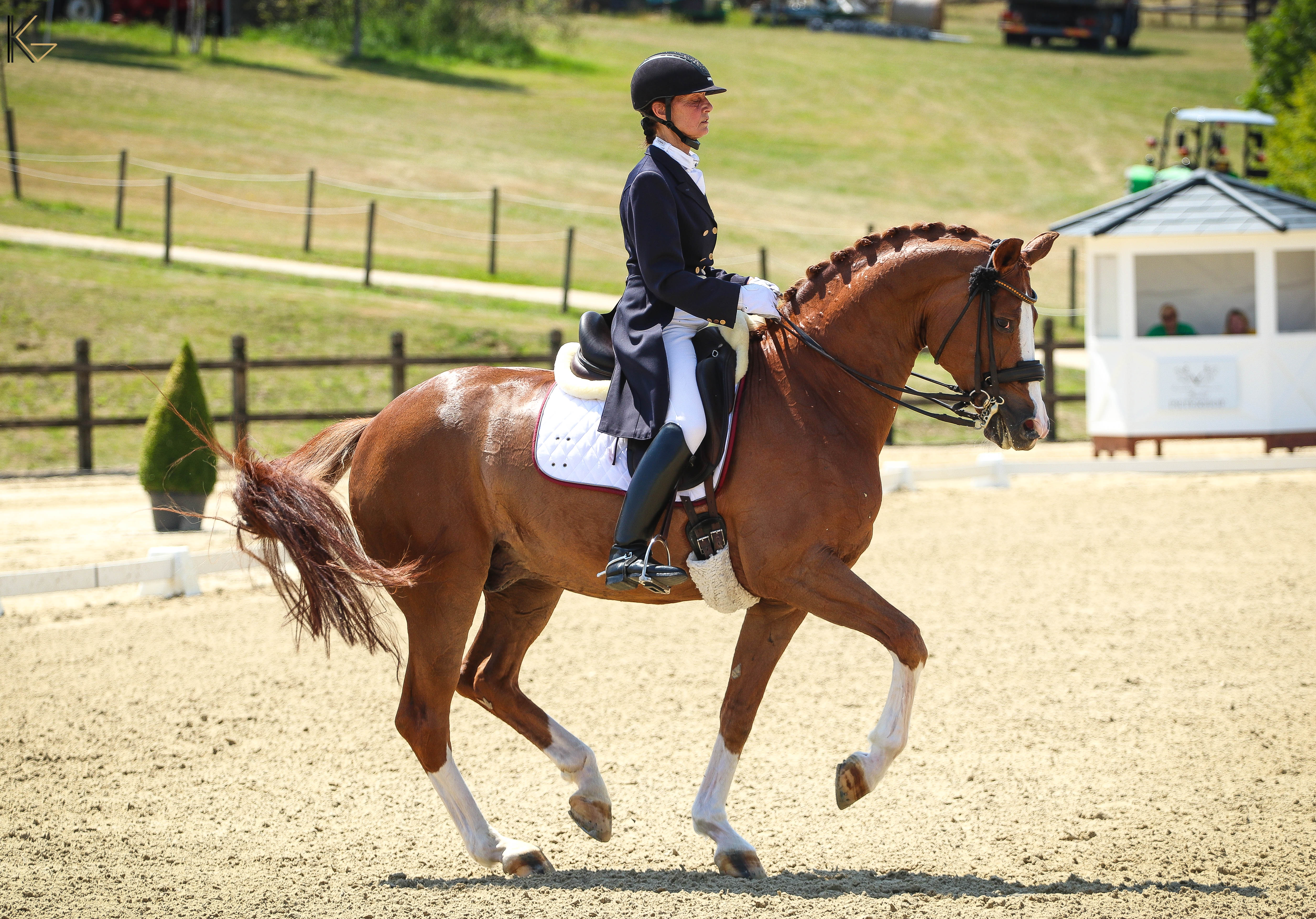 Carrie Schopf during the 2019 CDI Leudelange, Luxembourg.